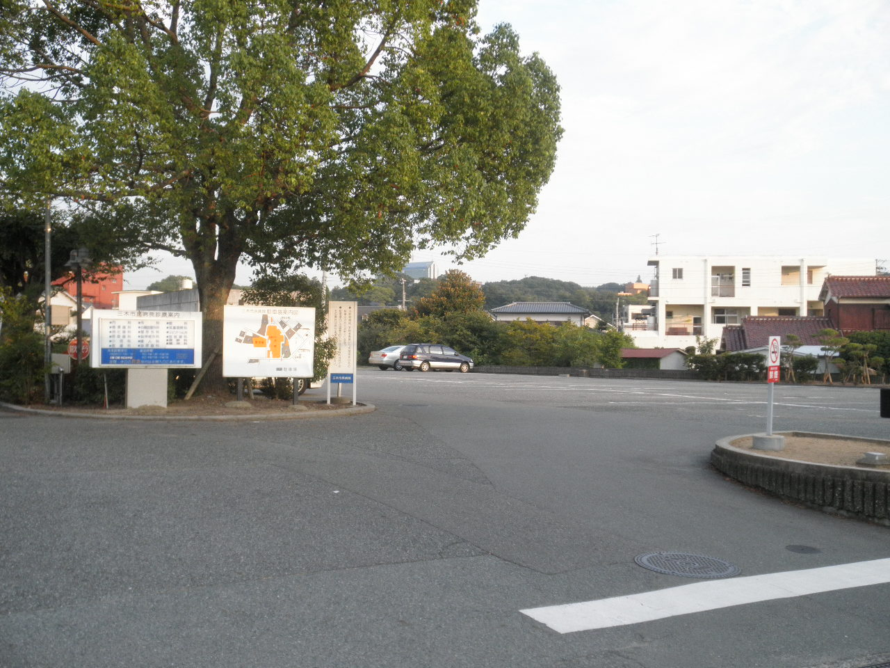 Mikicity Hospital Parkingarea